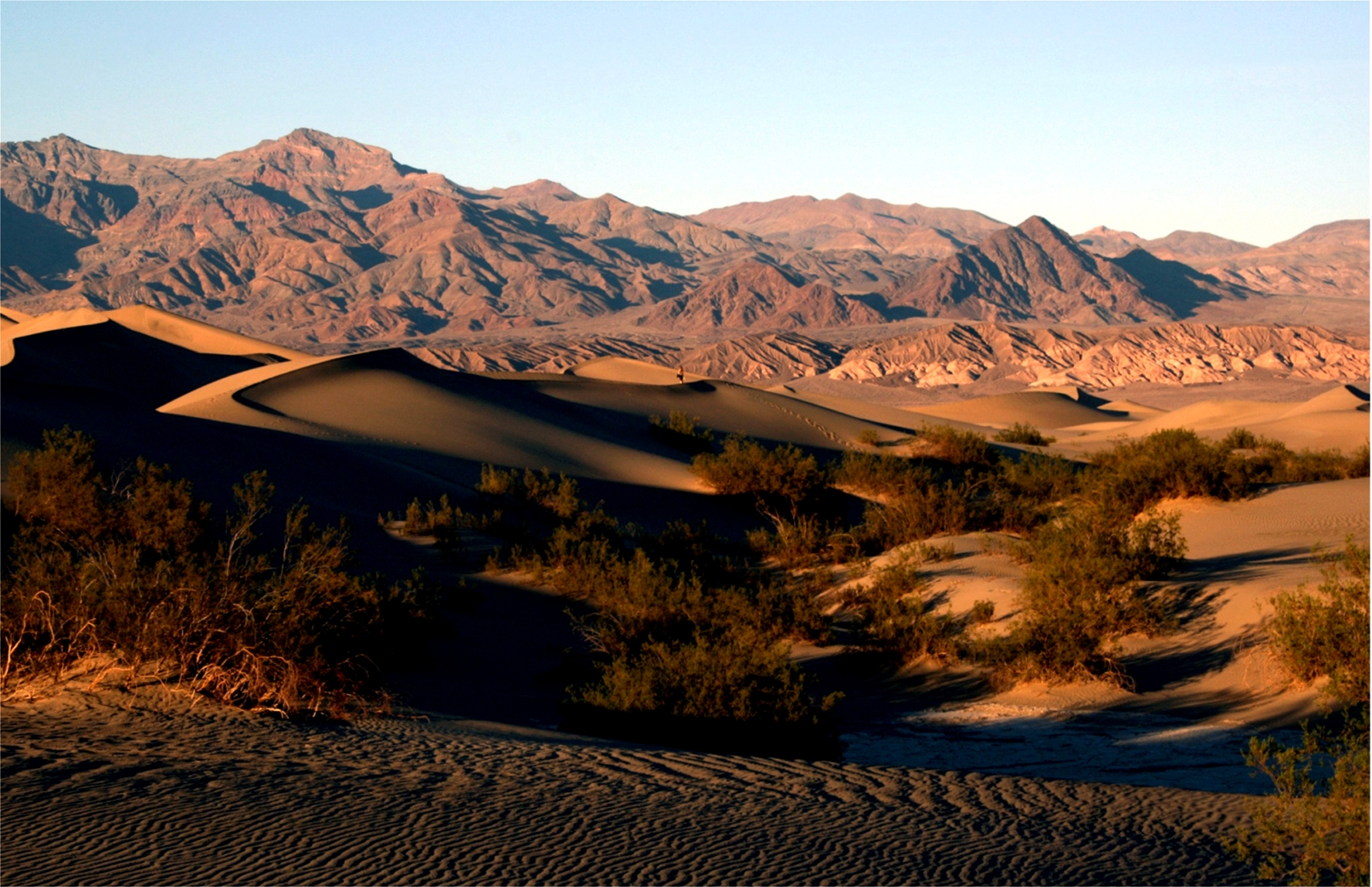 Sand dunes in Death Valley National Park